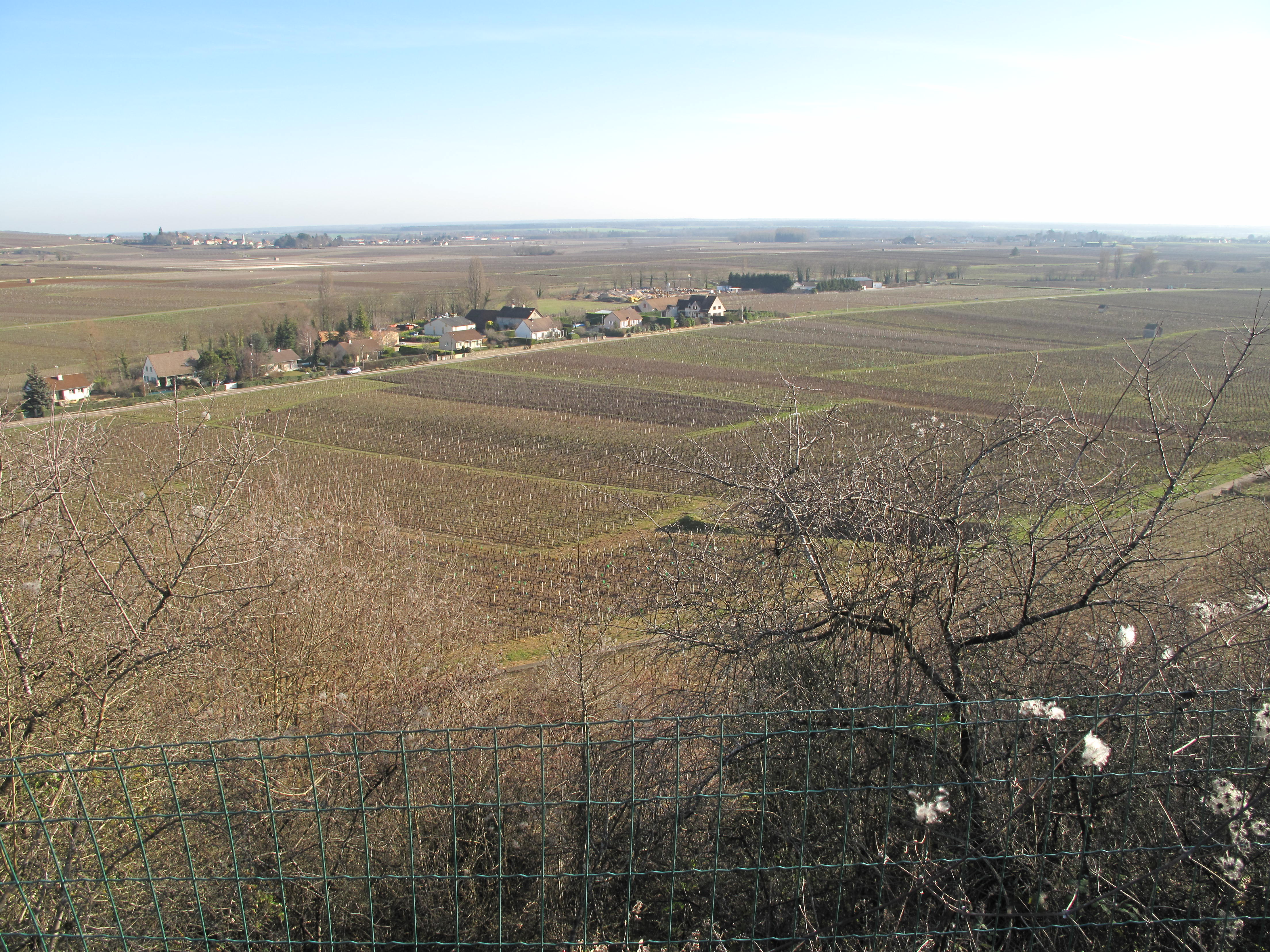 Vineyards of Savigny-lès-Beaune (Côte-d'Or, France) in winter near the French highway A6.